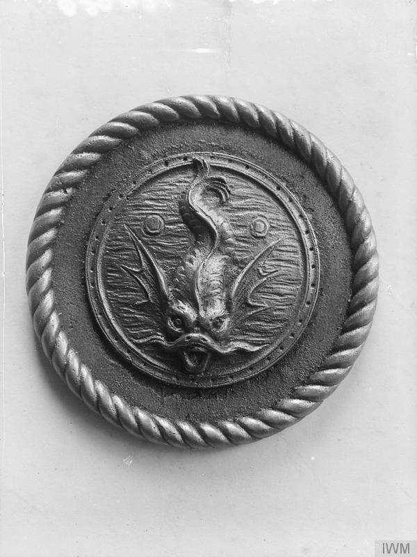 Collections of the Imperial War Museum Ship badge of HMS Telemachus.